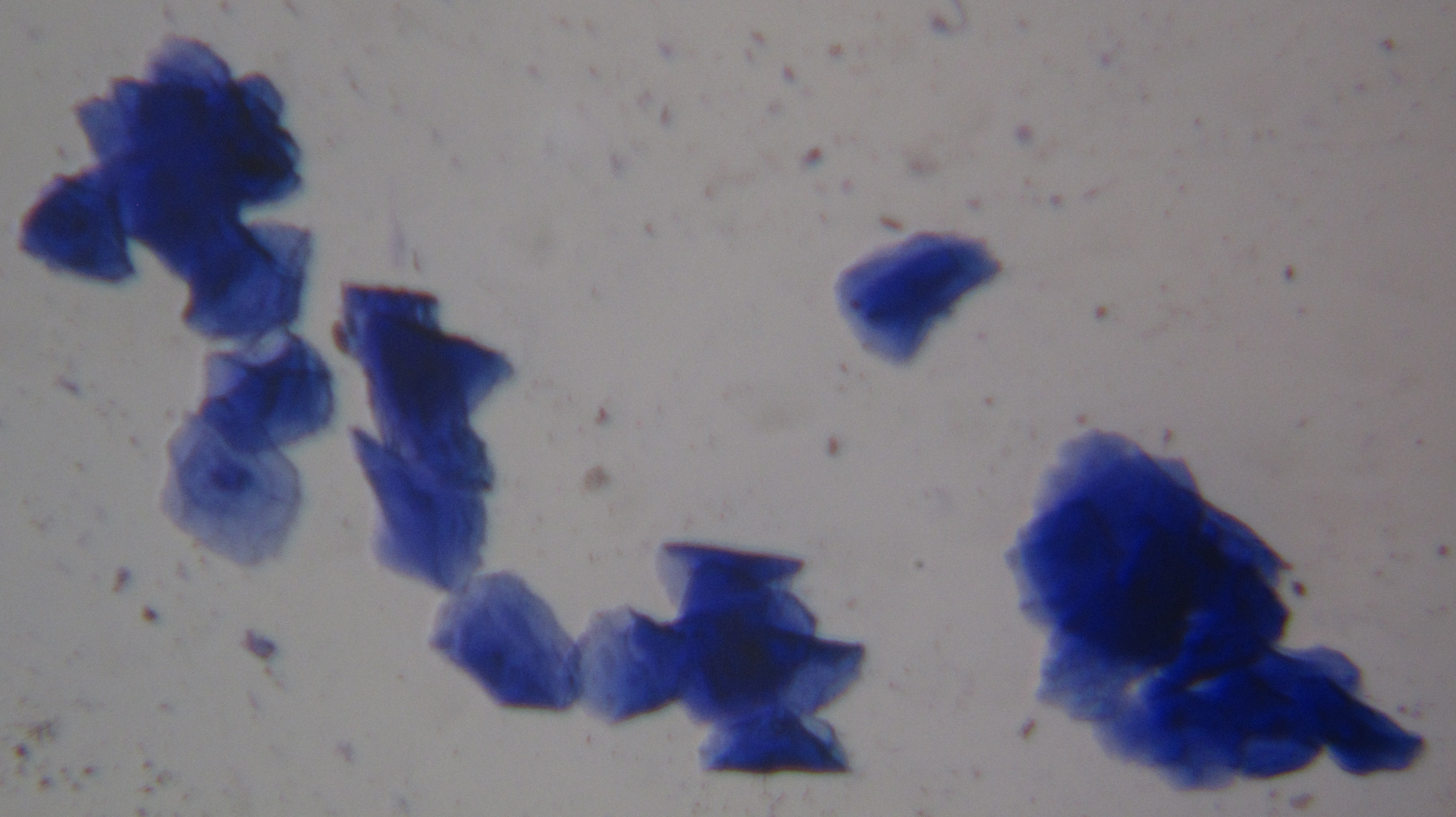 vaginalcytology of a bitch during estrus